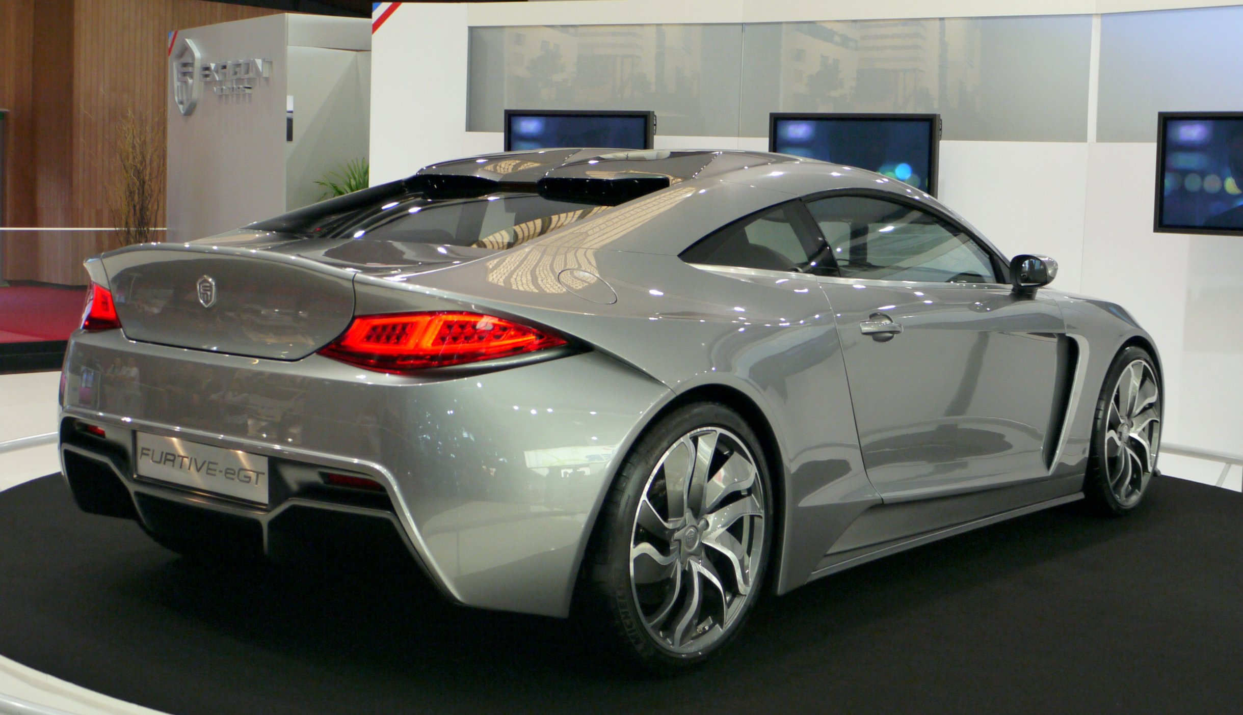 Exagon Motors Furtive-eGT - French electric GT. Powered by two latest-generation engines created by Siemens Corporate Technology, each providing an output of 125 kW. The lithium-ion batteries are manufactured by Saft.